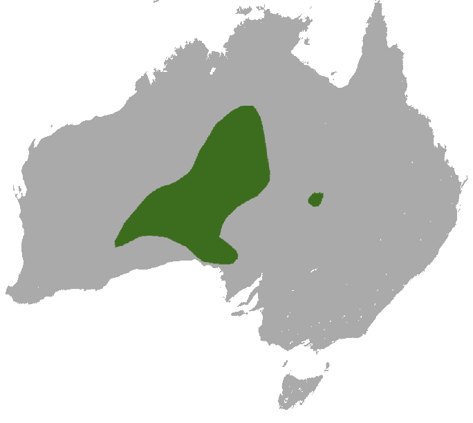 Southern Marsupial Mole (Notoryctes typhlops) range